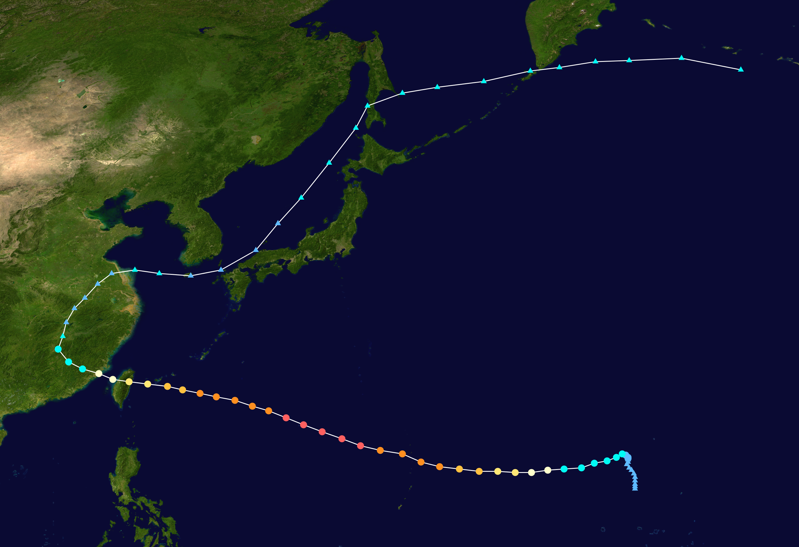 Track map of Typhoon Elsie of the 1969 Pacific typhoon season. The points show the location of the storm at 6-hour intervals. The colour represents the storm's maximum sustained wind speeds as classified in the Saffir–Simpson hurricane wind scale (see below), and the shape of the data points represent the nature of the storm, according to the legend below. Saffir–Simpson hurricane wind scale Tropical depression≤38 mph≤62 km/h Category 3111–129 mph178–208 km/h Tropical storm39–73 mph63–118 km/h Category 4130–156 mph209–251 km/h Category 174–95 mph119–153 km/h Category 5≥157 mph≥252 km/h Category 296–110 mph154–177 km/h Unknown Storm typeTropical cycloneSubtropical cycloneExtratropical cyclone / Remnant low / Tropical disturbance